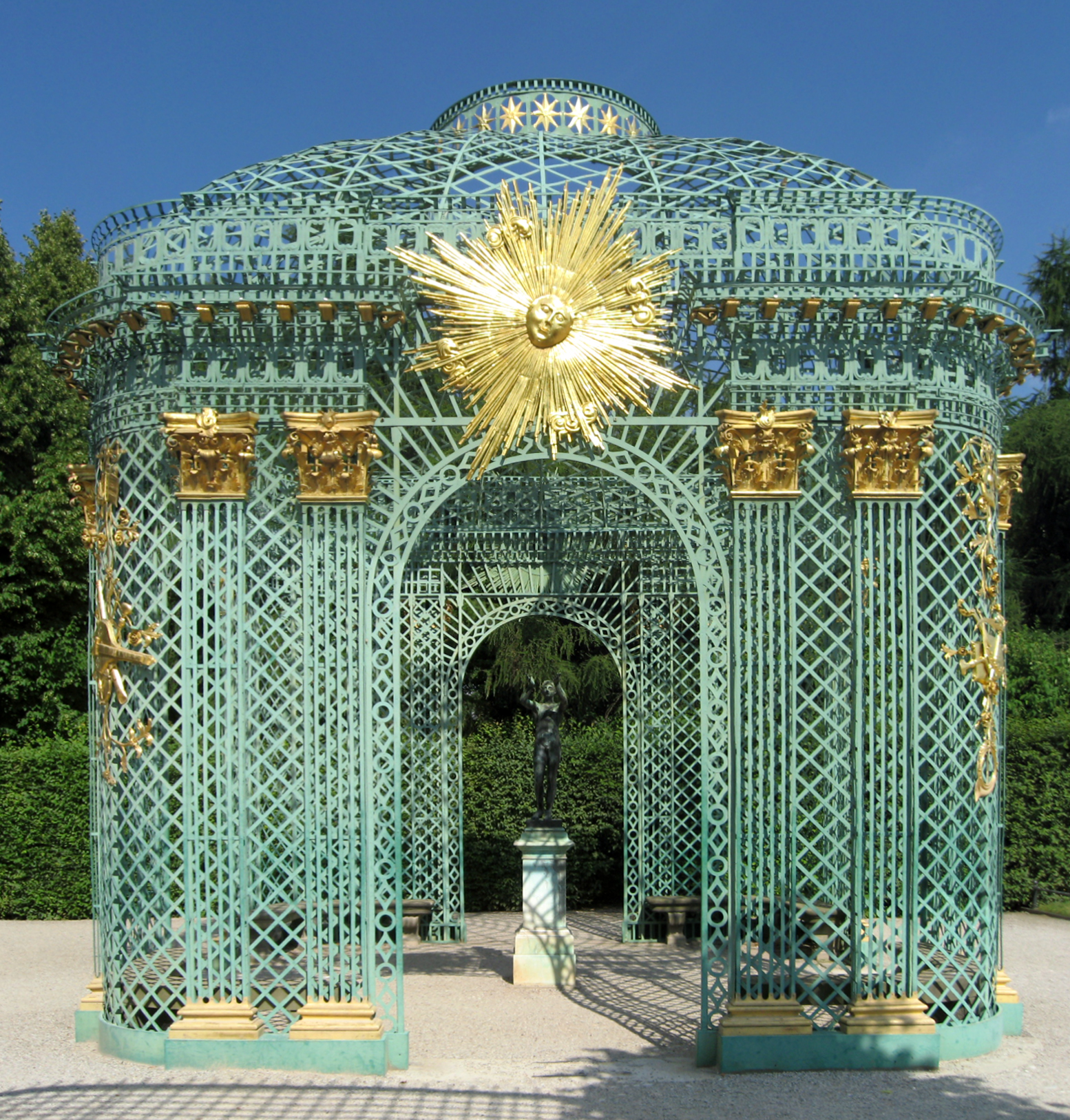 One of the trellised gazebos in the park of Sanssouci